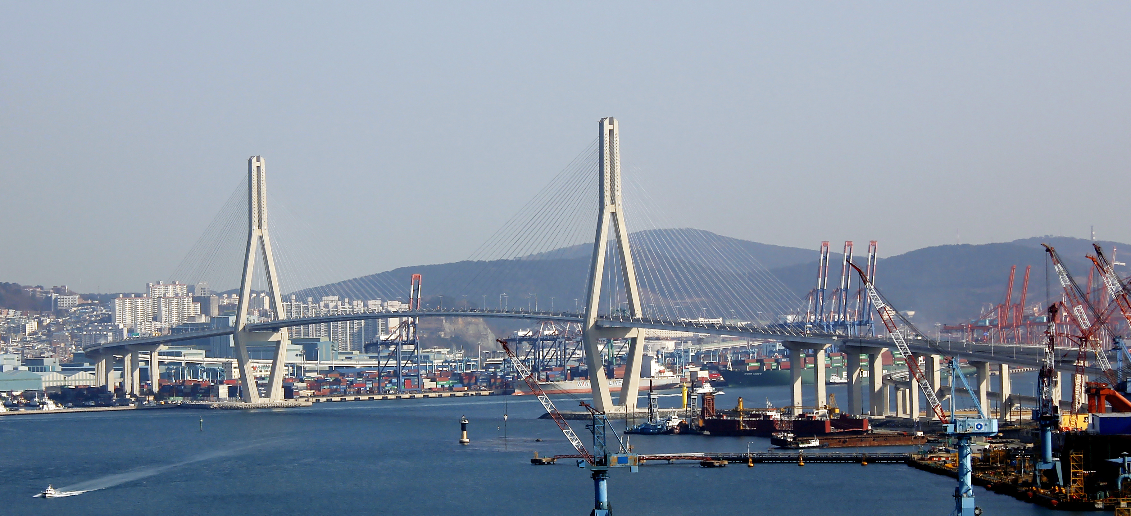 Busanhangdaegyo (Busanhang Bridge)